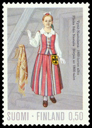 Postage stamp depicting a traditional dress of the 1800s in Nastola